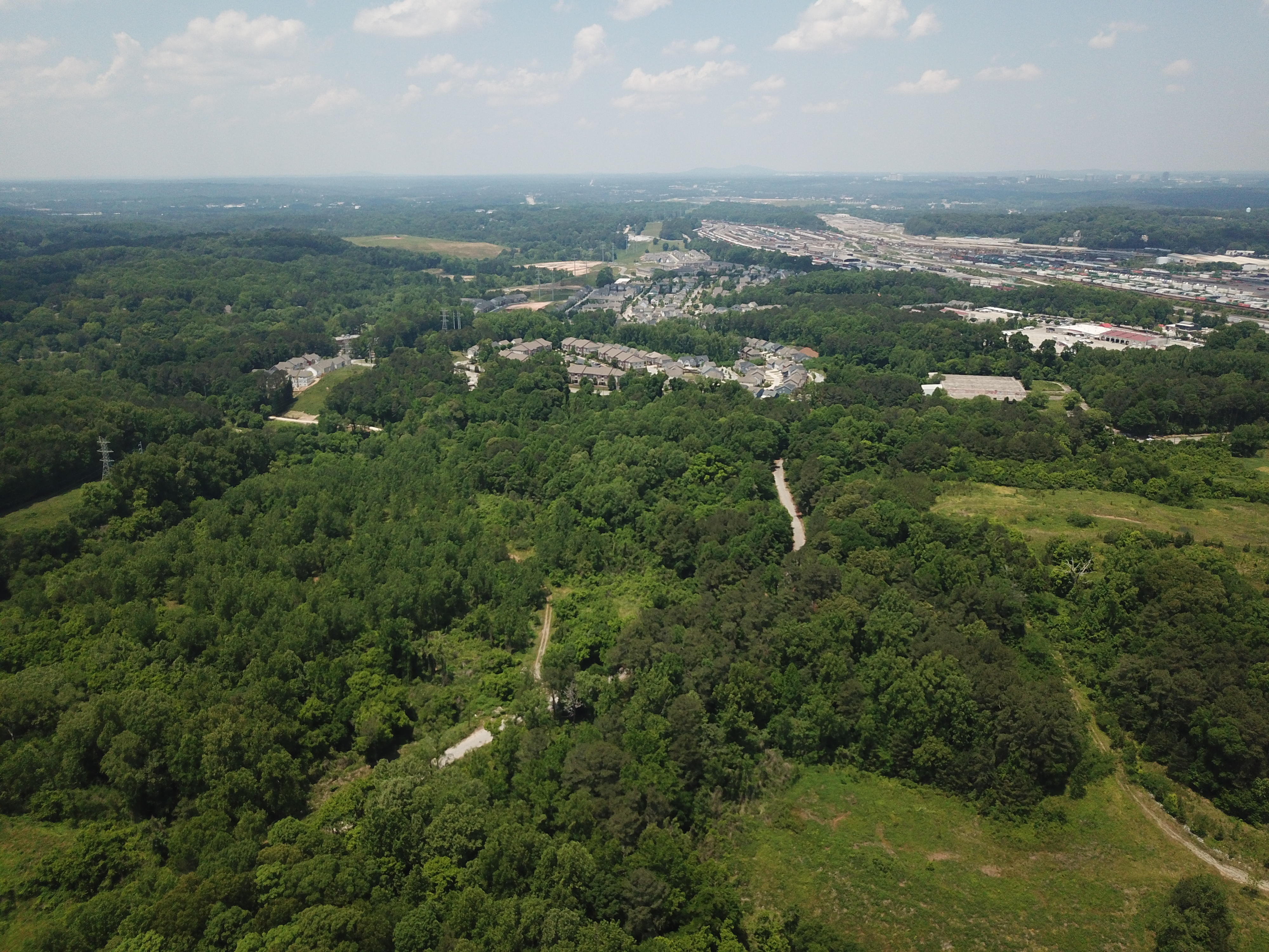 Aerial view of the wooded area that is slated to be developed as part of phase 1 of Atlanta's Westside Park